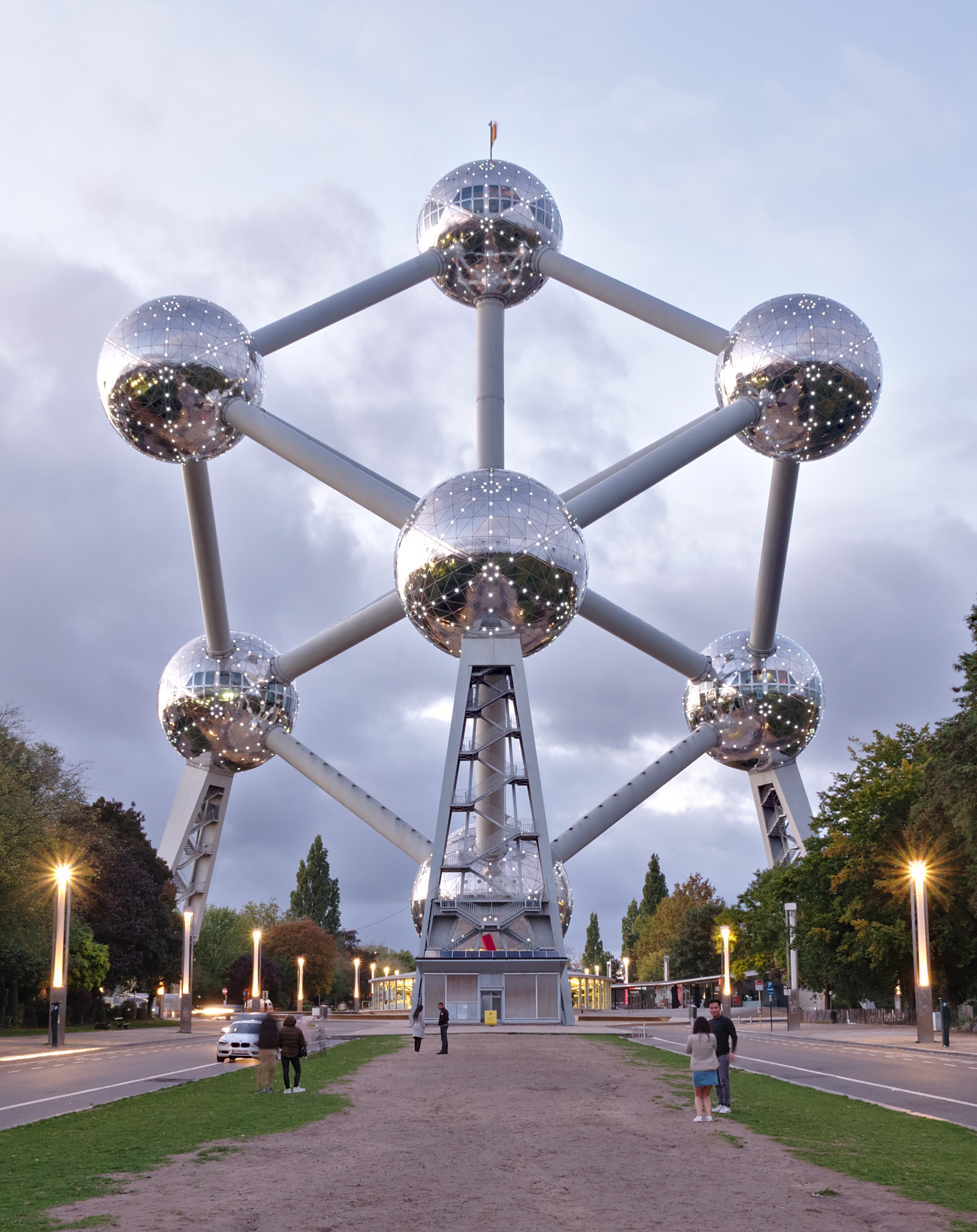 The Atomium during civil twilight (North side) This photo of immovable heritage has been taken in the Brussels Capital Region